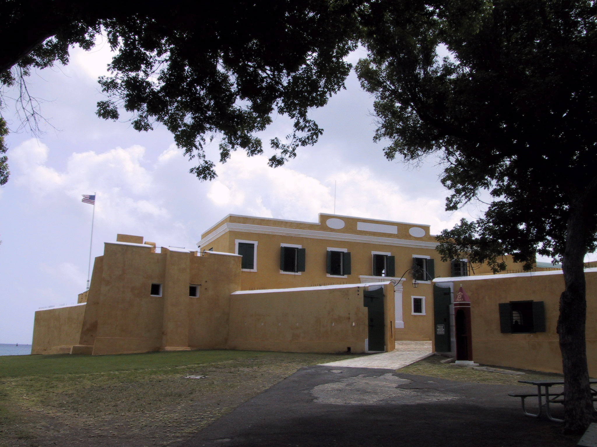 Fort Christiansvaern, Christiansted, St. Croix, US Virgin Islands. Photo by Martin Lie, Trondheim, Norway.